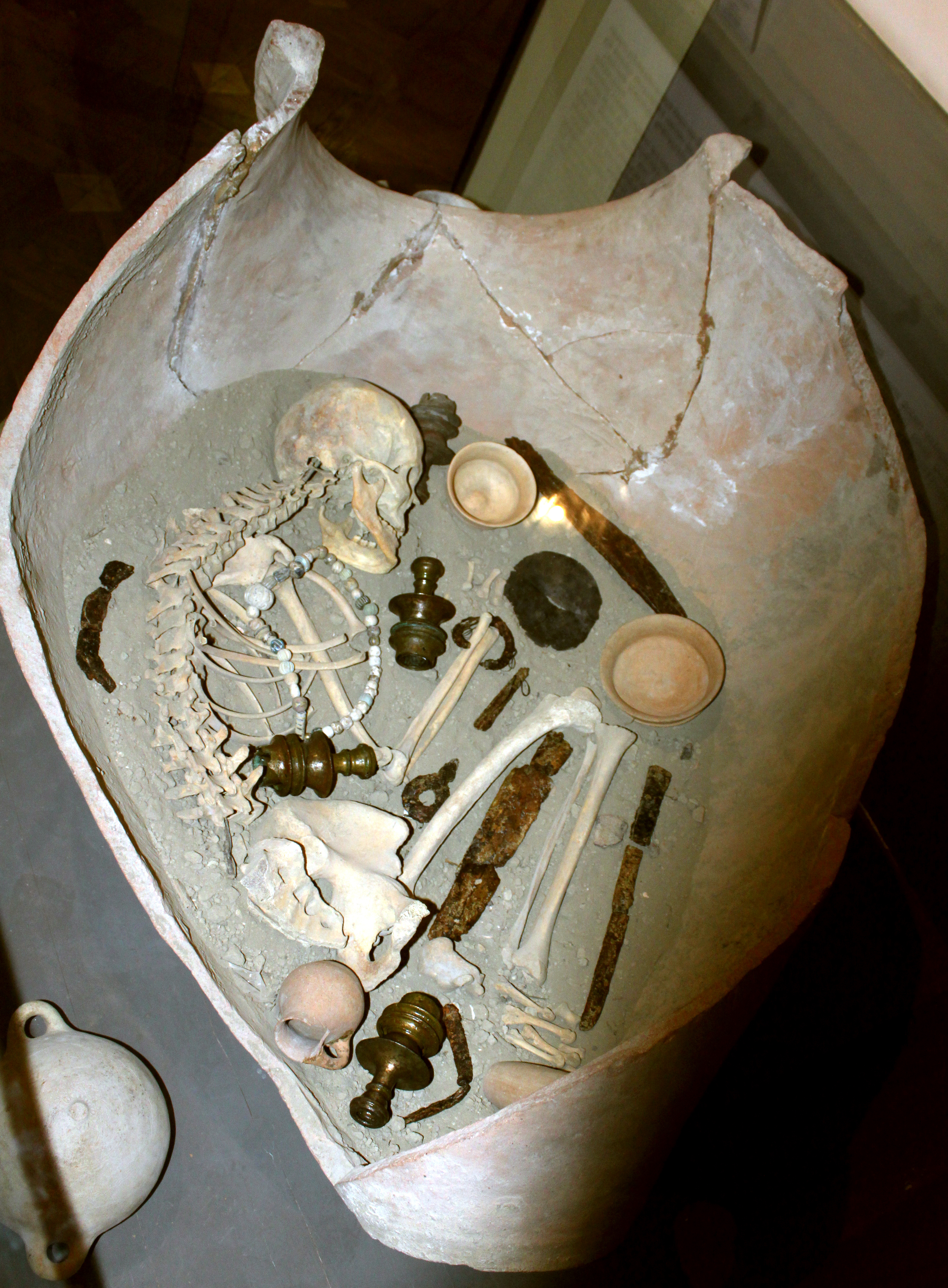 Jar-Burial Culture in AHM